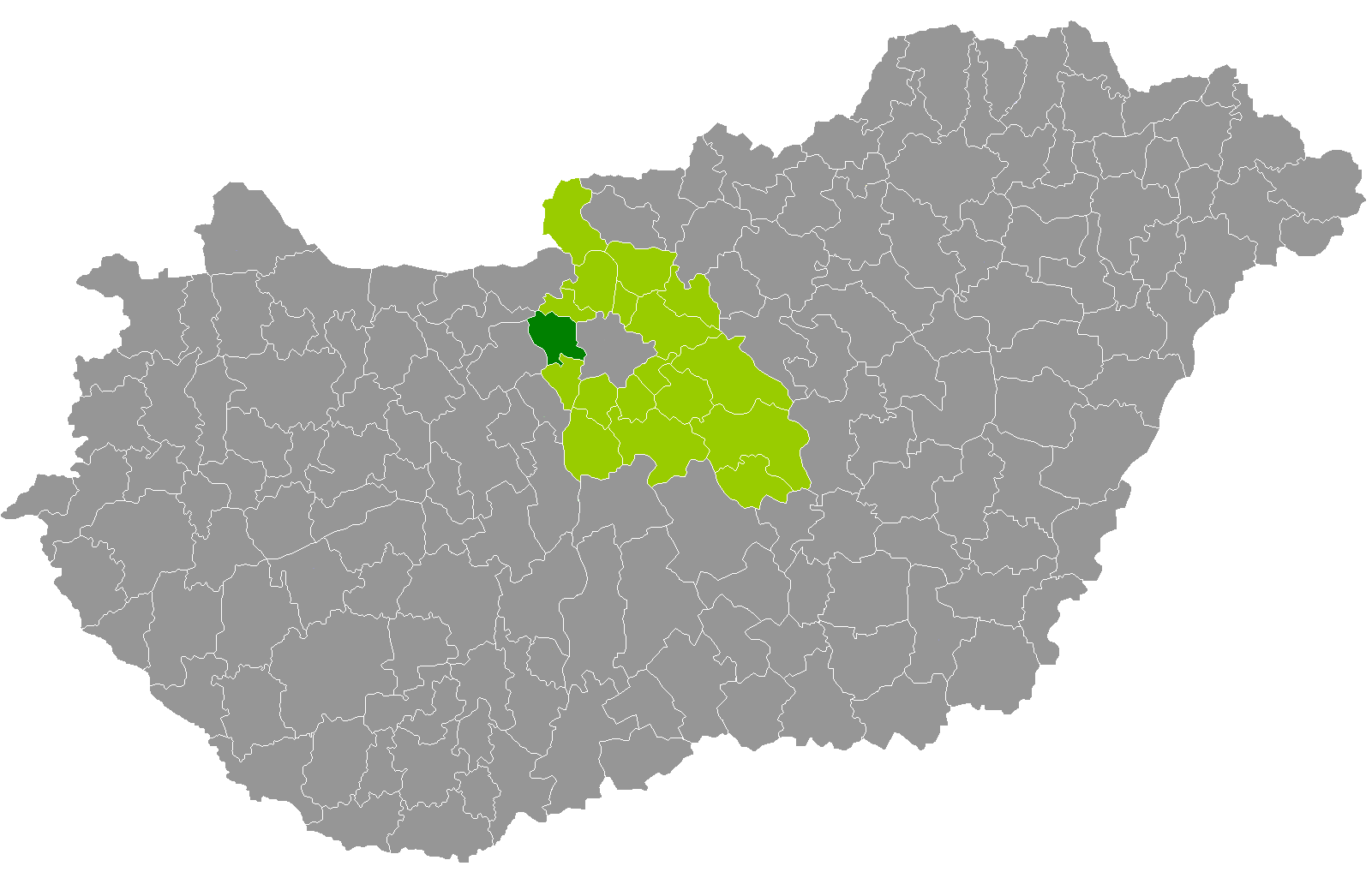 Location of Budakeszi District, Pest, Hungary